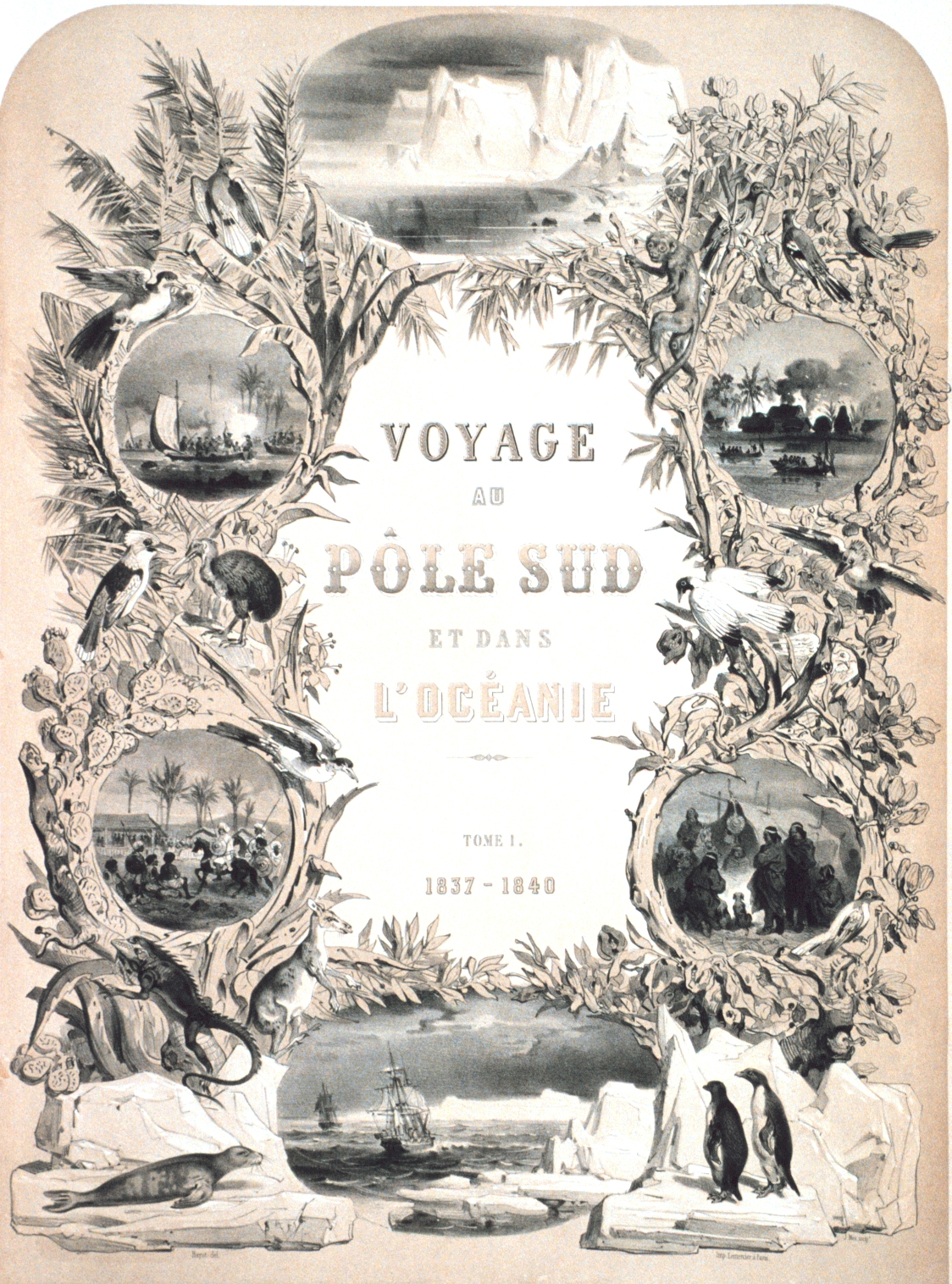 Frontispiece to: "Voyage au pole sud et dans l'Oceanie ....." by the French ships ASTROLABE and ZELEE under the command of Dumont D'Urville.